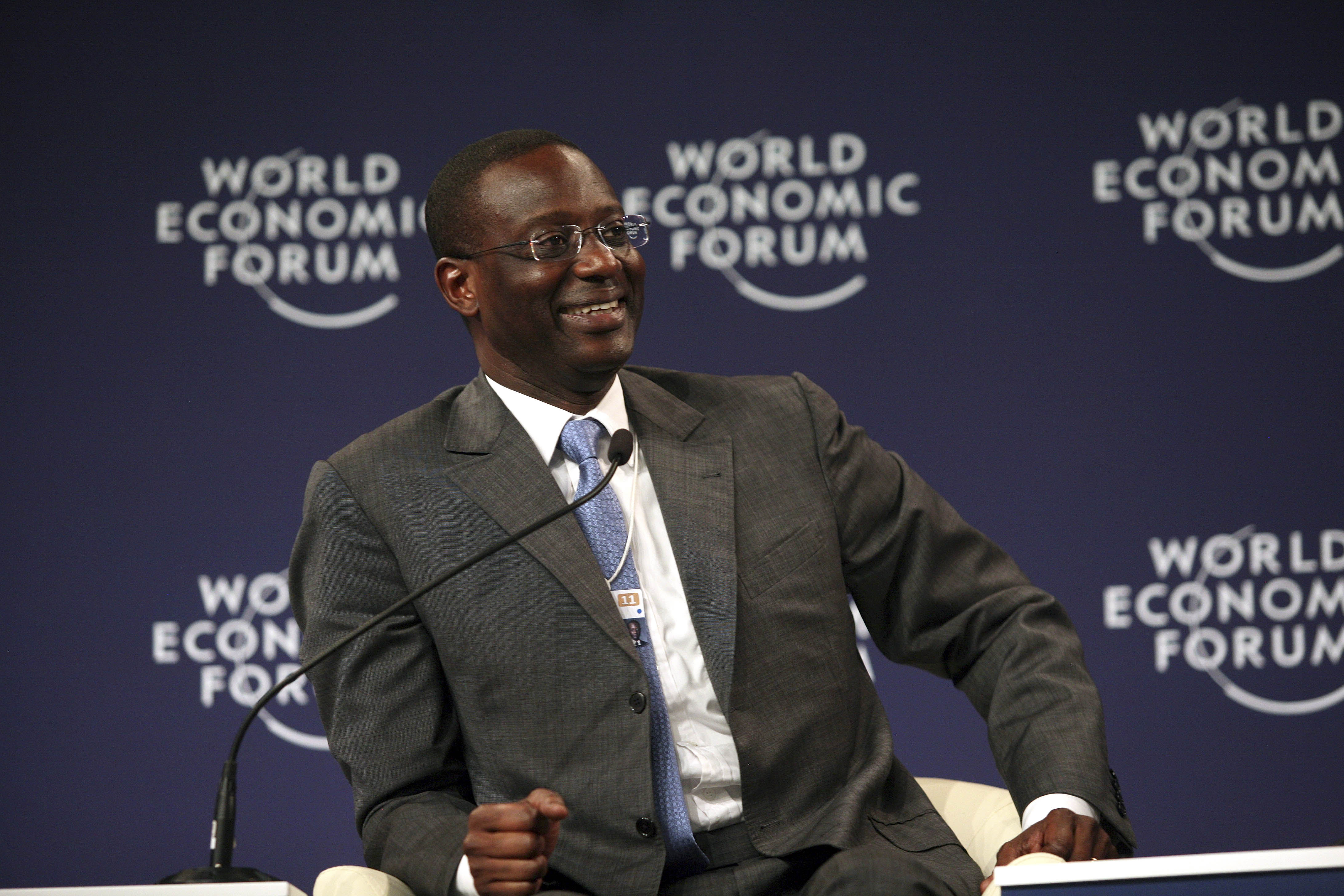 DALIAN/CHINA, 16SEP11 - Tidjane Thiam, Group Chief Executive, Prudential, speaks during the "Governing Global Growth: The New Context" session at the World Economic Forum's Annual Meeting of the New Champions in Dalian, China, September 16, 2011. Copyright World Economic Forum ( Otto